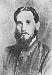 Charles Webster Leadbeater (1847-1934), Adyar (Chennai) 1885